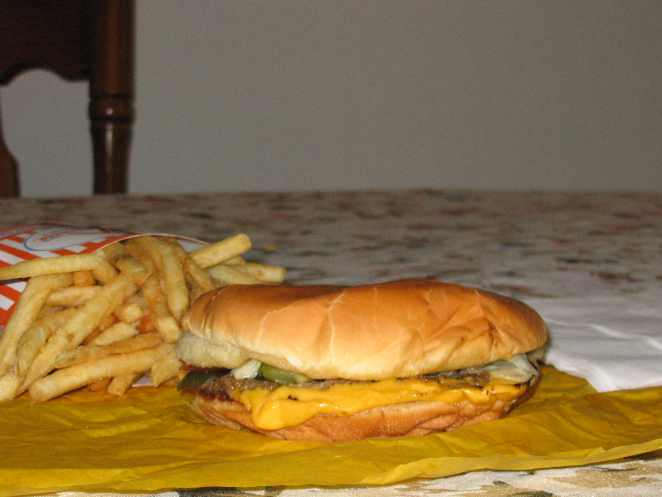 A classic Whataburger with no onions and cheese added. Two buns, one beef patty, cheese (added, not default), pickles, tomatoes, mustard, and lettuce.